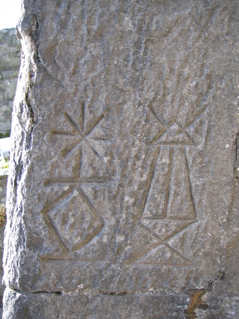 Moel Famau Jubilee Tower Hieroglyphs These hieroglyphs are located inside the south facing alcove of the Jubilee Tower. As the tower was conceived in an Egyptian style, they were presumably carved at the time it was built around 1810. See also 323743.